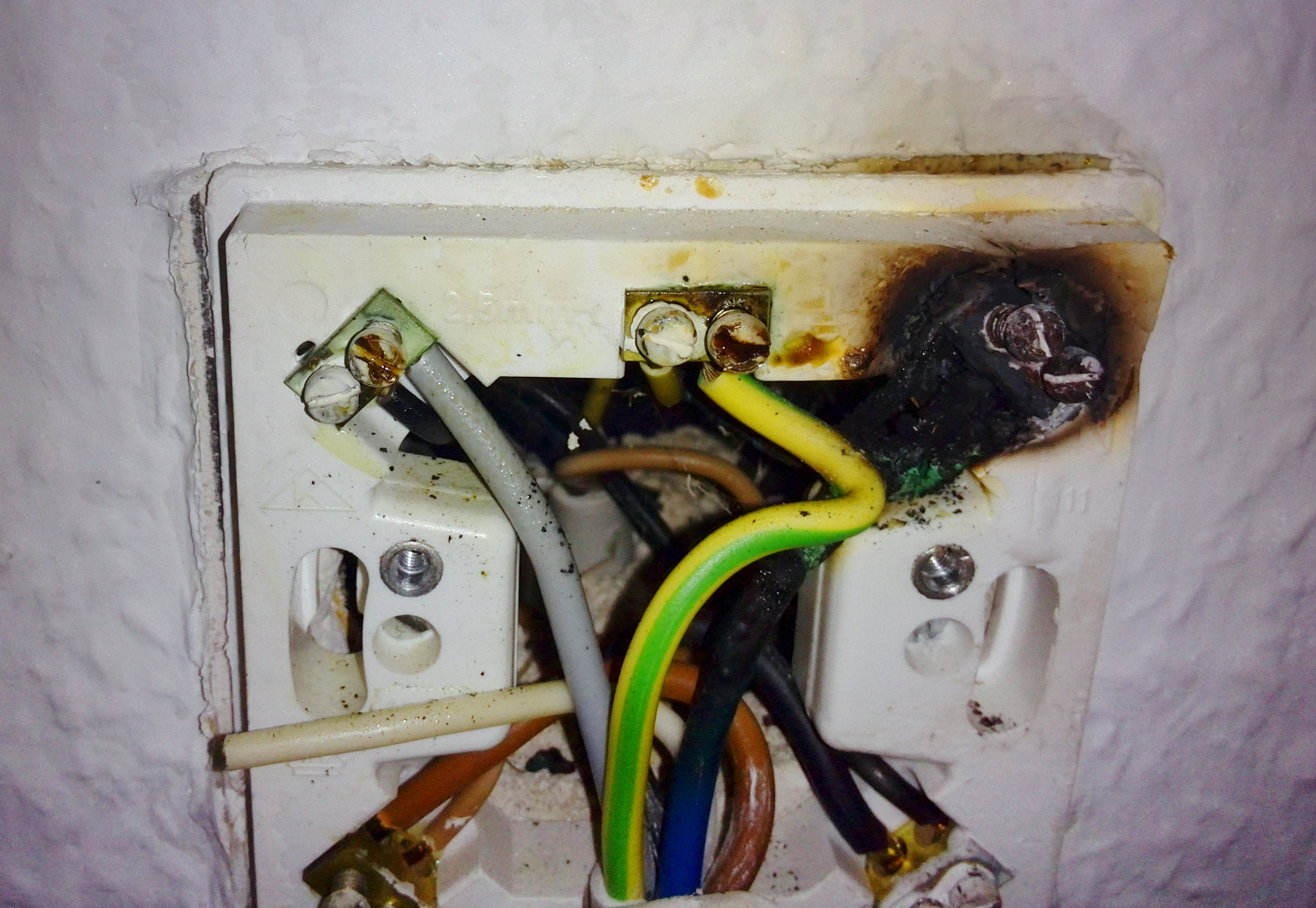 Burnt socket from an oven resulting from a glowing contact.